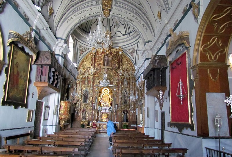 iglesia de ntra. sra. de la paz